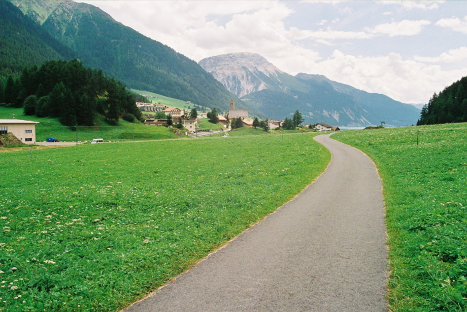 "Reschenpass / Passo di Resia", cycleway over top of the pass, view to south, in the background Endkopf / Cima Termine (2652m)